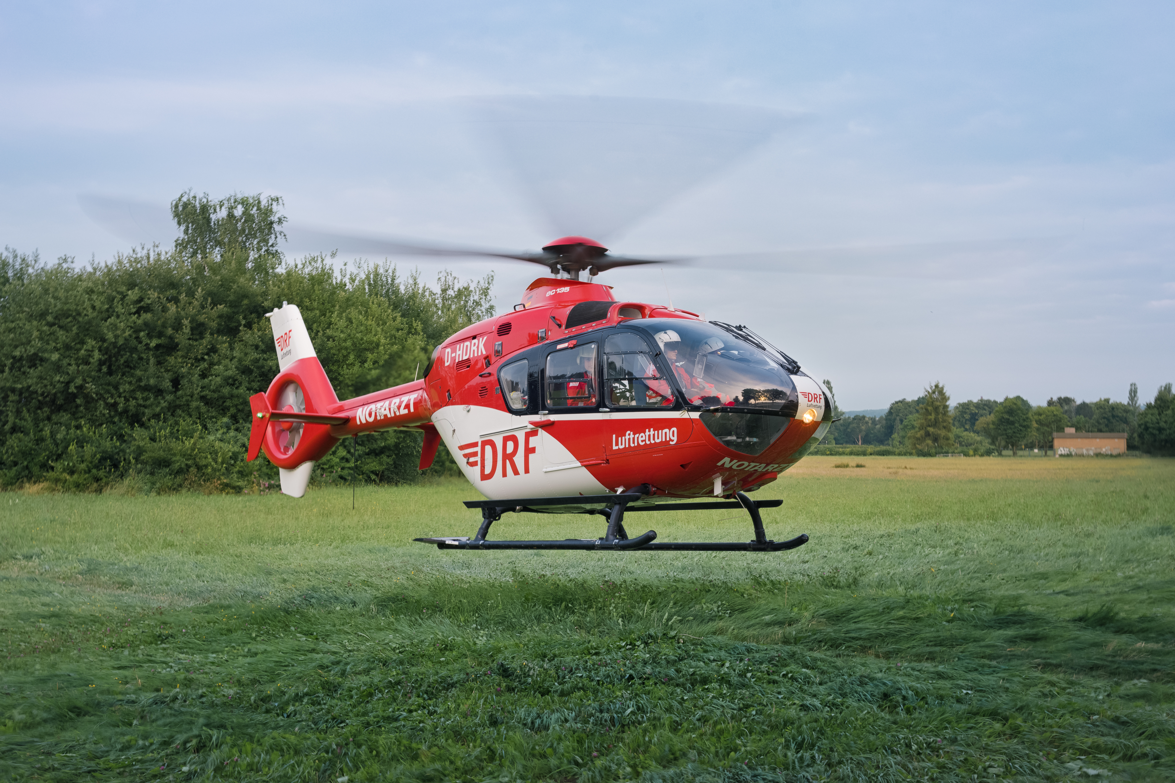 DRF Luftrettung Eurocopter EC135 P2 "Christoph 44" air ambulance helicopter (reg. D-HDRK, s/n 0477) during takeoff in Göttingen, Germany. Christoph 44 is called through PSAP Göttingen and stationed at the university hospital of the Georg-August-University of Göttingen.